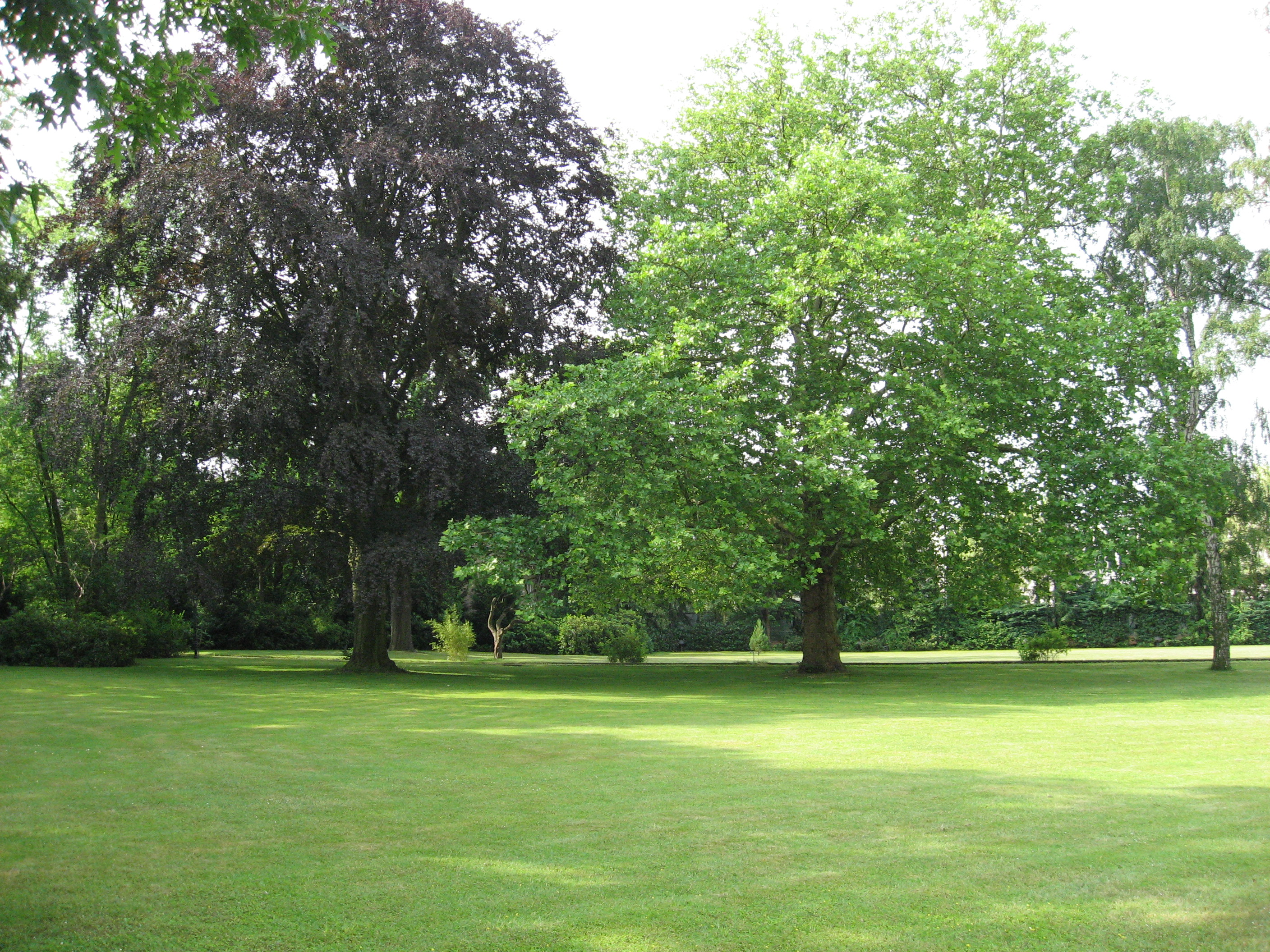 Gardens of Harnack House of the Max Planck Gesellschaft, Dahlem, Berlin